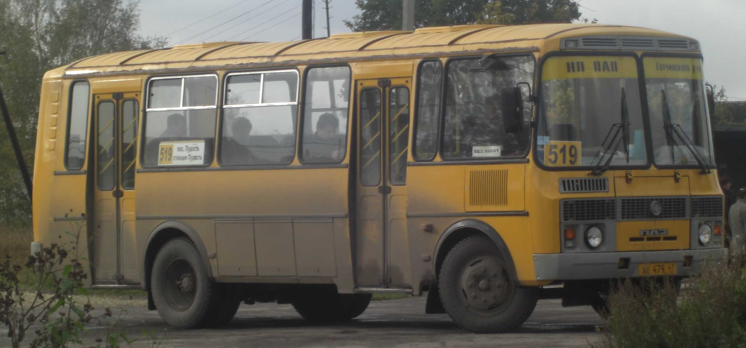 Bus, marshrut К-519, Pudost station